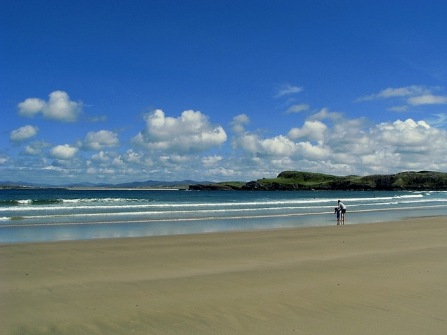 Marble Hill Strand Note – the Google maps here are useless. Please refer to OSI Discovery Series Sheet 2 from which all accurate grid references have been made. Another view across Marble Hill Strand towards Clonmass Point. For other images of the strand see 3196178 .